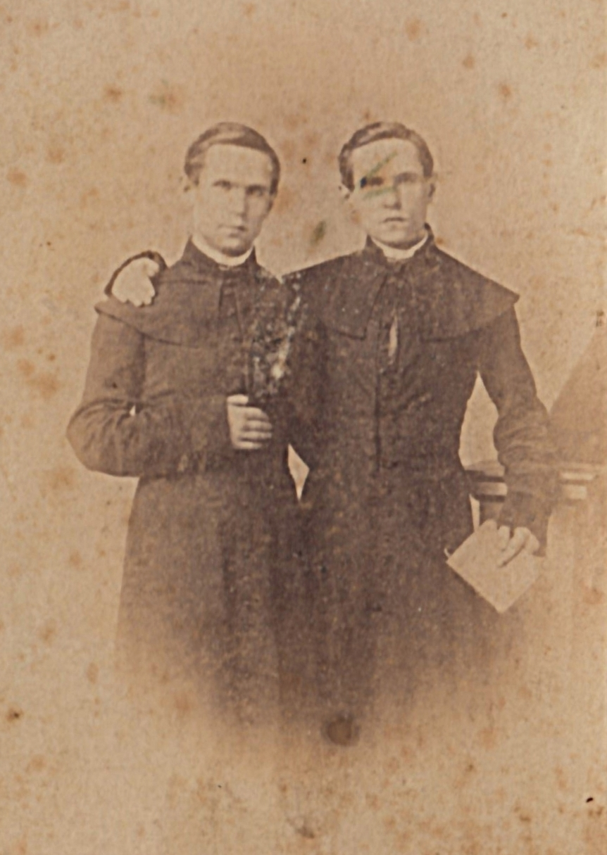 Detail of portrait by Karol Beyer, showing twin brothers Zenon and Stanisław Chodyński, here as a students of Higher Seminary in Włocławek.